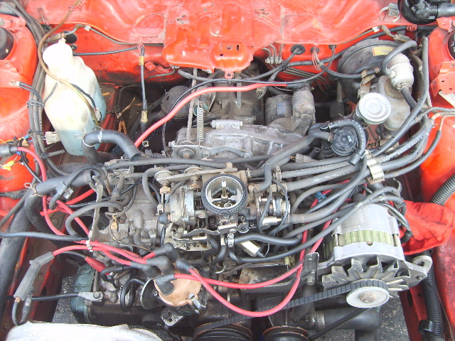 Subaru EA-71 Engine found in a 1984 hatchback.